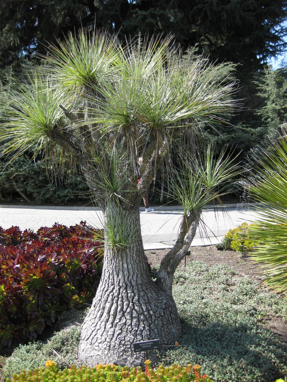 Photographed at Huntington Gardens (Los Angeles, California) in March